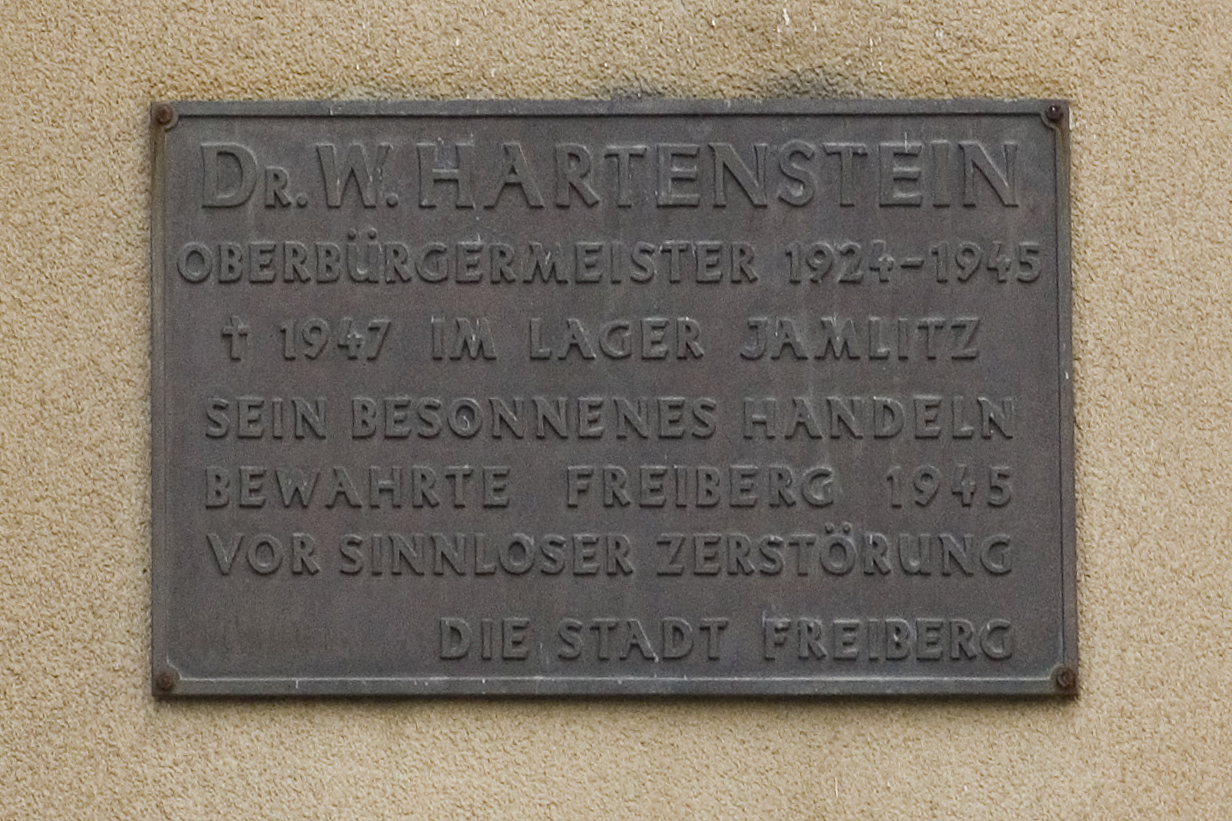 W. Hartenstein, plaque in Freiberg, Saxony